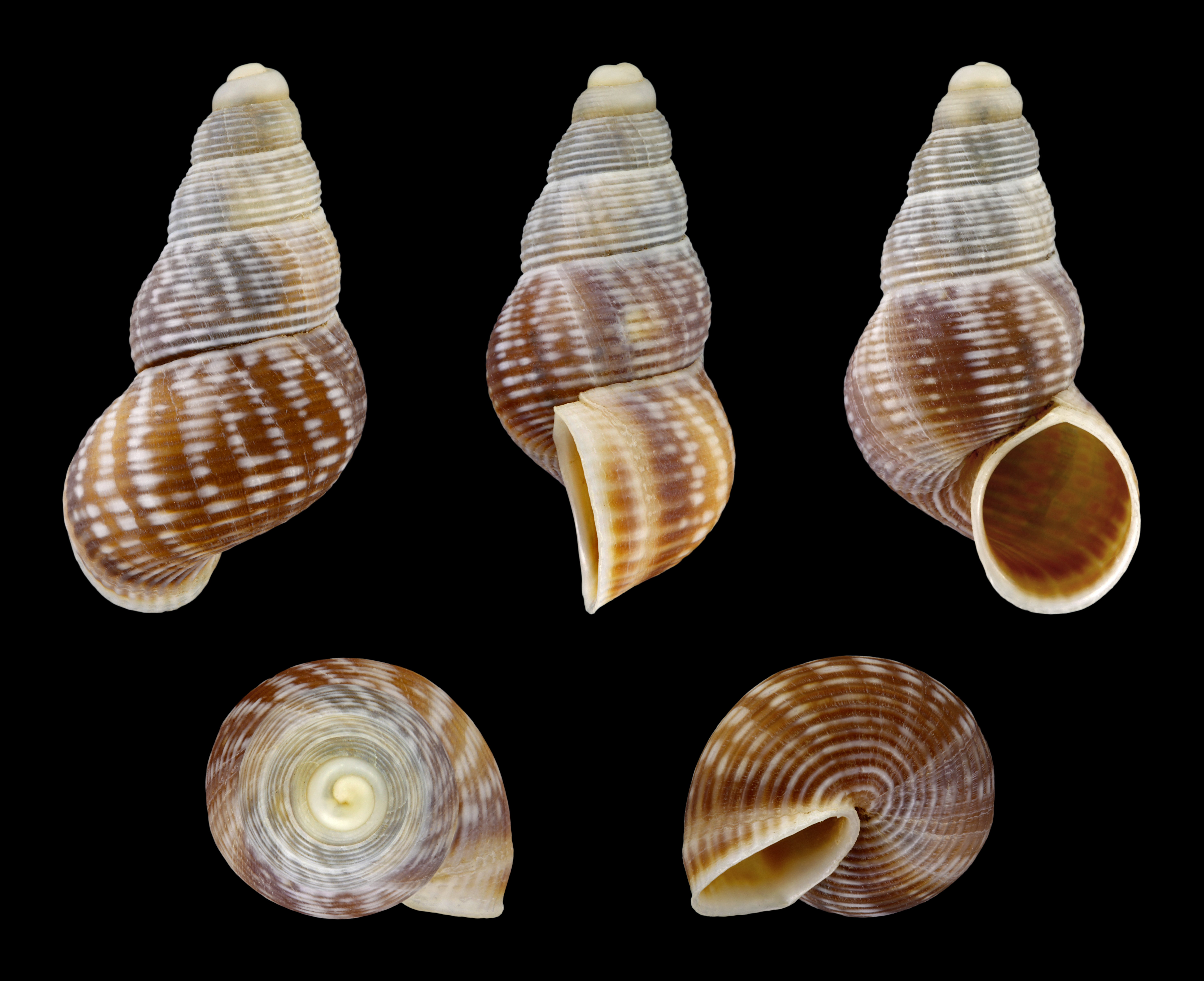 Length 2.0 cm; Originating from Capdepera, Majorca, Spain 39°42′52.38″N 3°28′28.67″E / 39.71455°N 3.4746306°E; Shell of own collection, therefore not geocoded. Dorsal, lateral (right side), ventral, back, and front view.